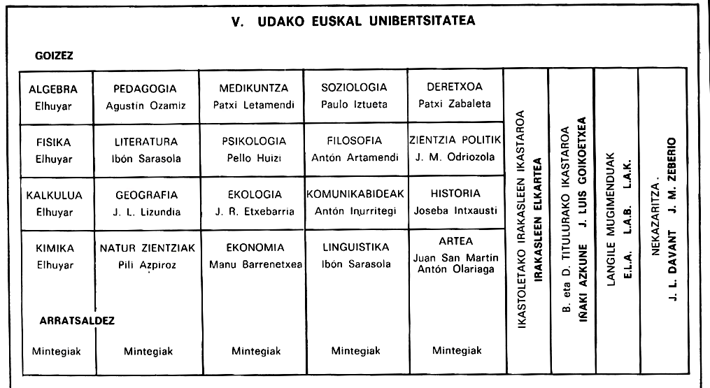 Udako Euskal Unibertsitatearen programa 1977an. Elhuyar, Jose Ramon Etxebarria, Iñaki Azkune, P Patxi letamendia, Jose Luis Lizundia, Ibon Sarasola, Patxi Zabaleta, Joseba Intxausti, Juan San Martin, Anton Olariaga, Pili Azpioz, Pello Huizi, Manu Barrenetxea, ...